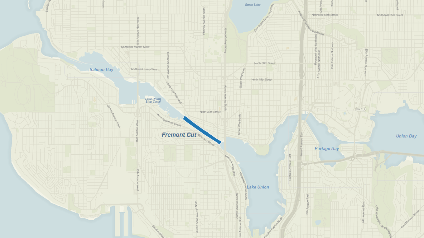 Map of Seattle showing Fremont Cut shaded in blue. Created with Tableau Software.